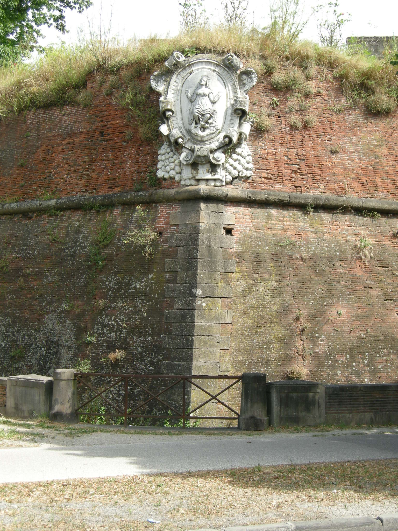 Wall and 'Santa Maria' relief feature — Lucca, in Tuscany.